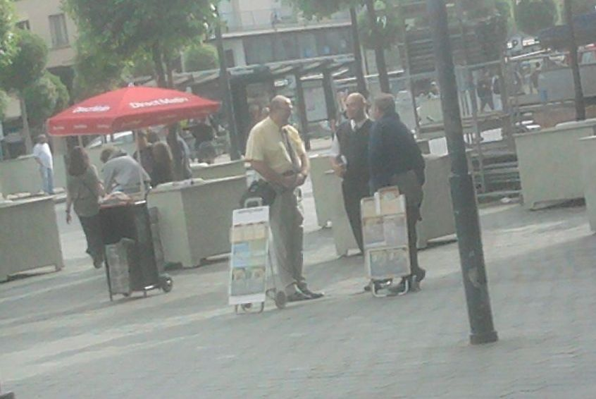 This is a photograph illustrating members of the watchtower society distributing tracts and books about their beliefs in Rennes (France).